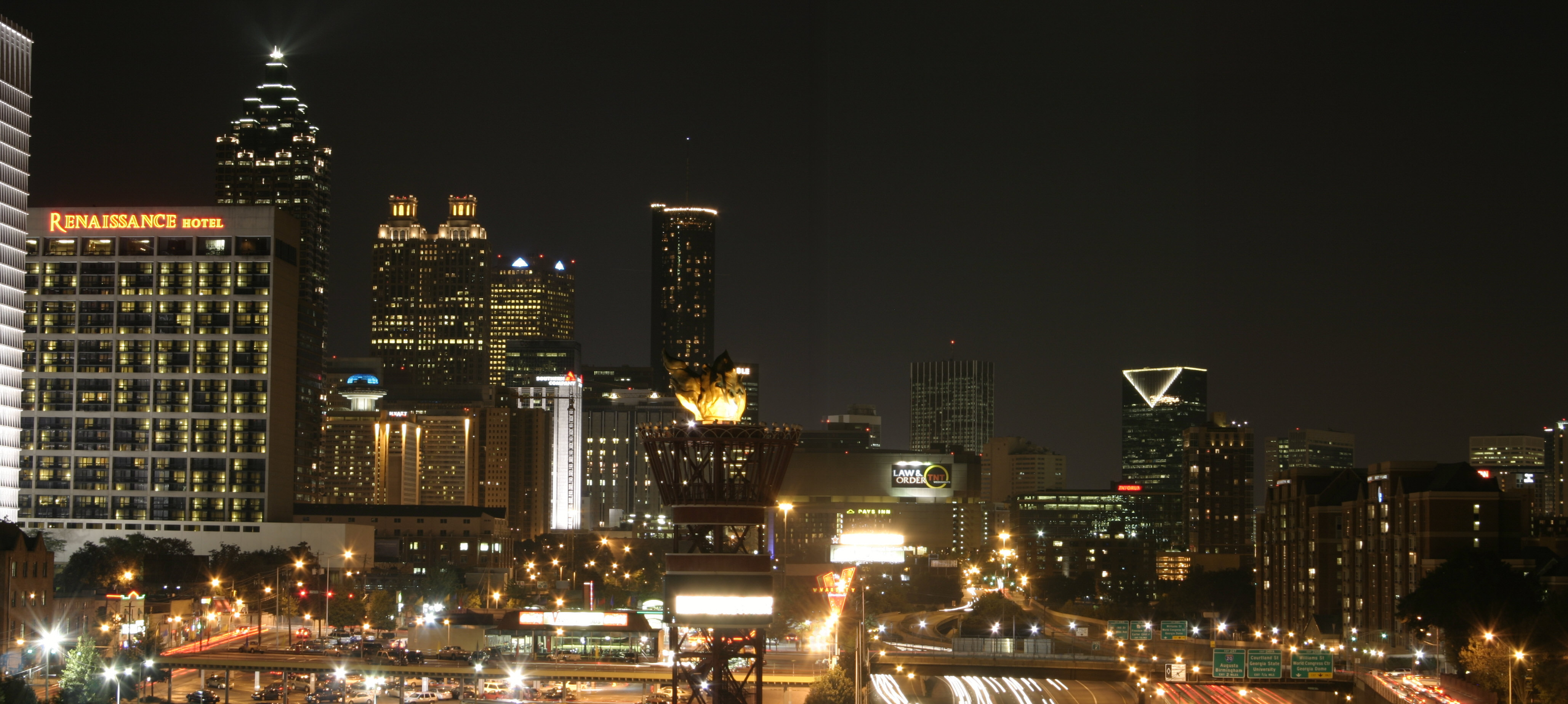 Atlanta at night